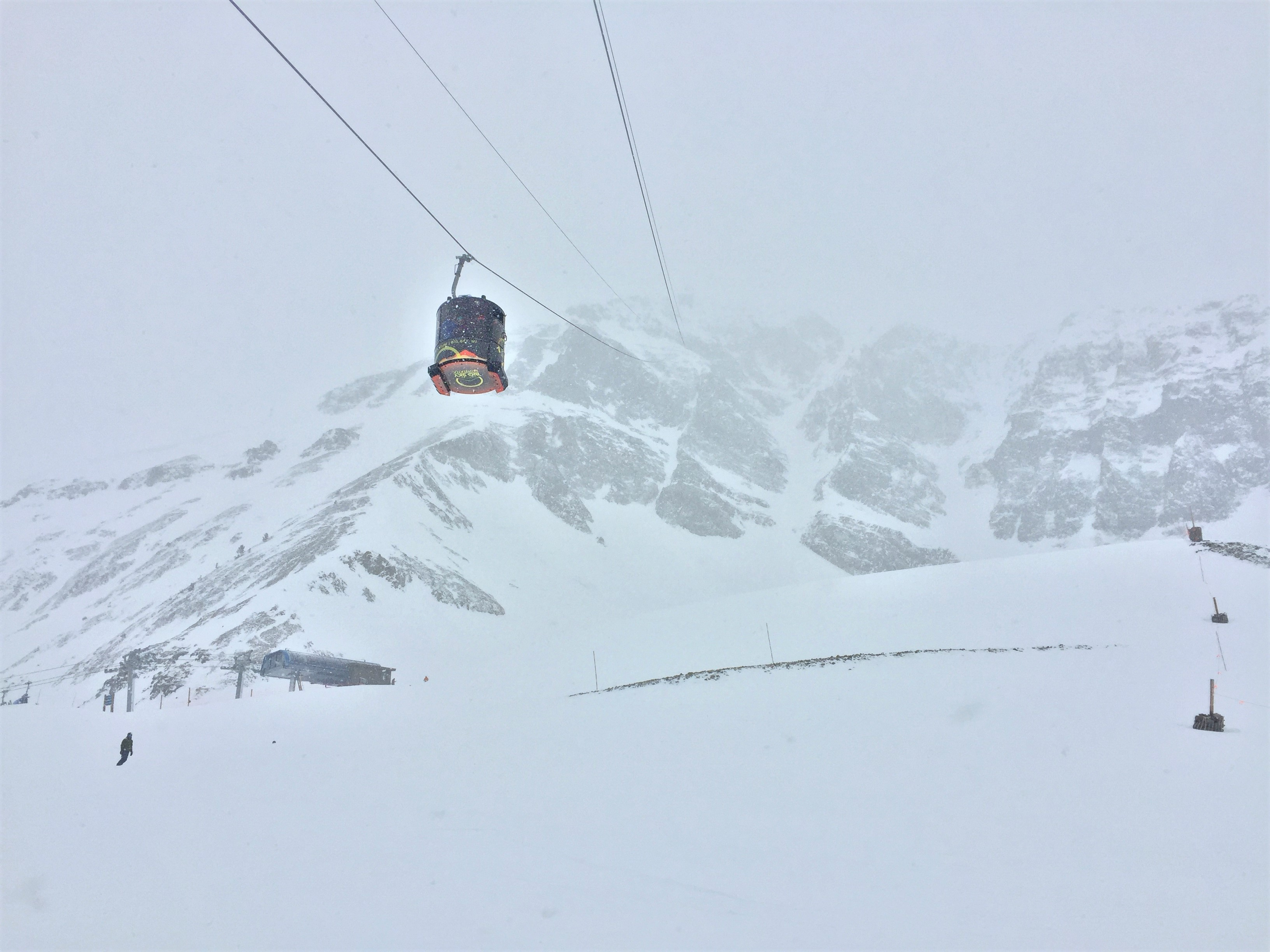 This is the Lone Peak Tram in January of 2018. The tram gives access to challenging ski terrain in the winter.